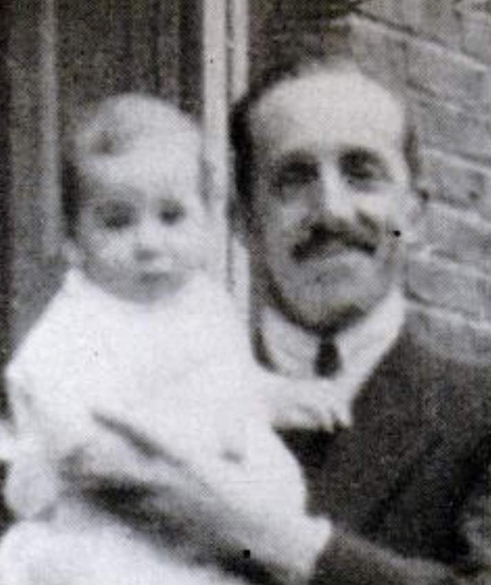 Alfonso XIII of Spain holding a one-year-old Alfonso Cabeza de Vaca y Leighton, later Marquess of Portago and godchild of the king.